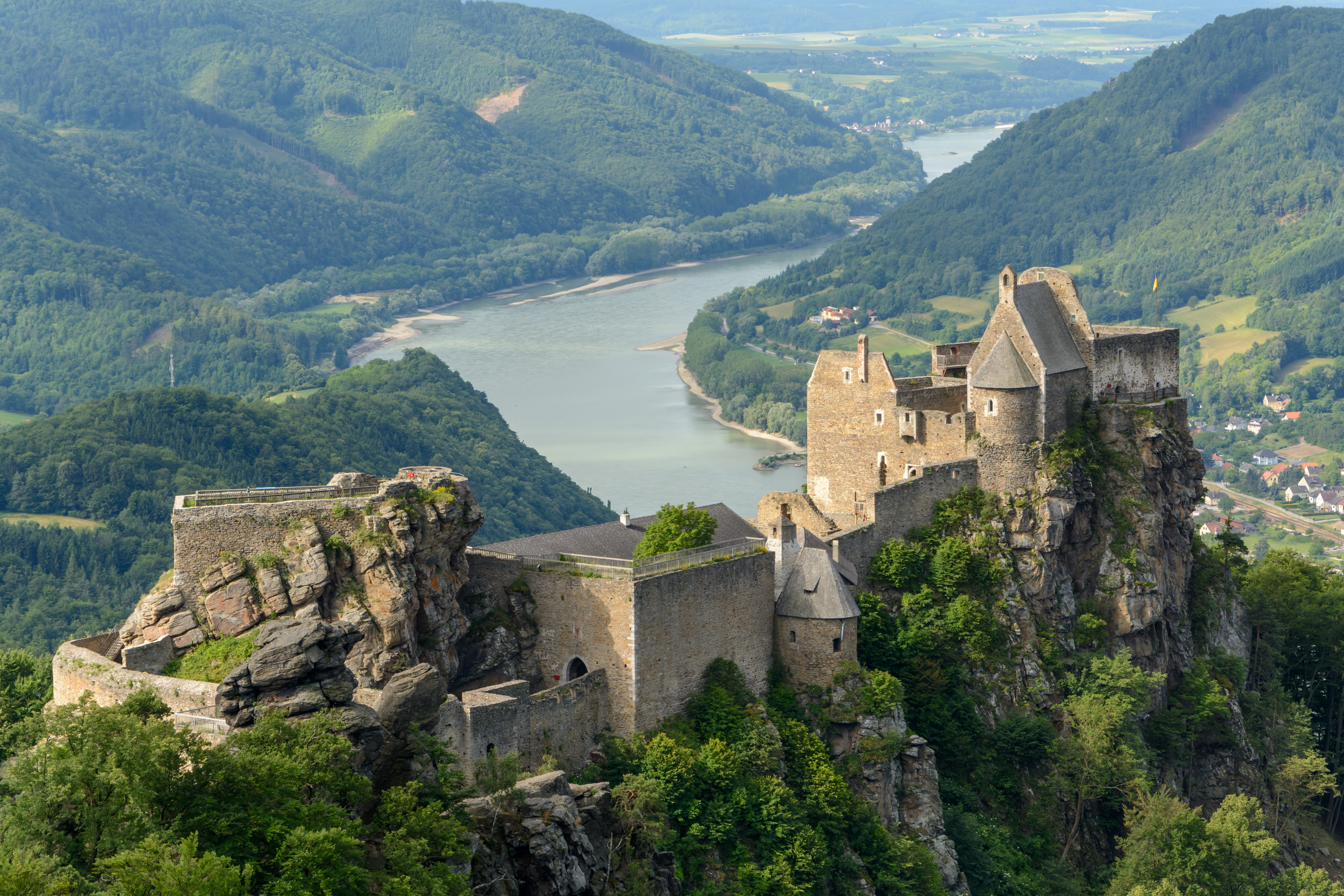 Castle ruins of Aggstein, Wachau, Lower Austria